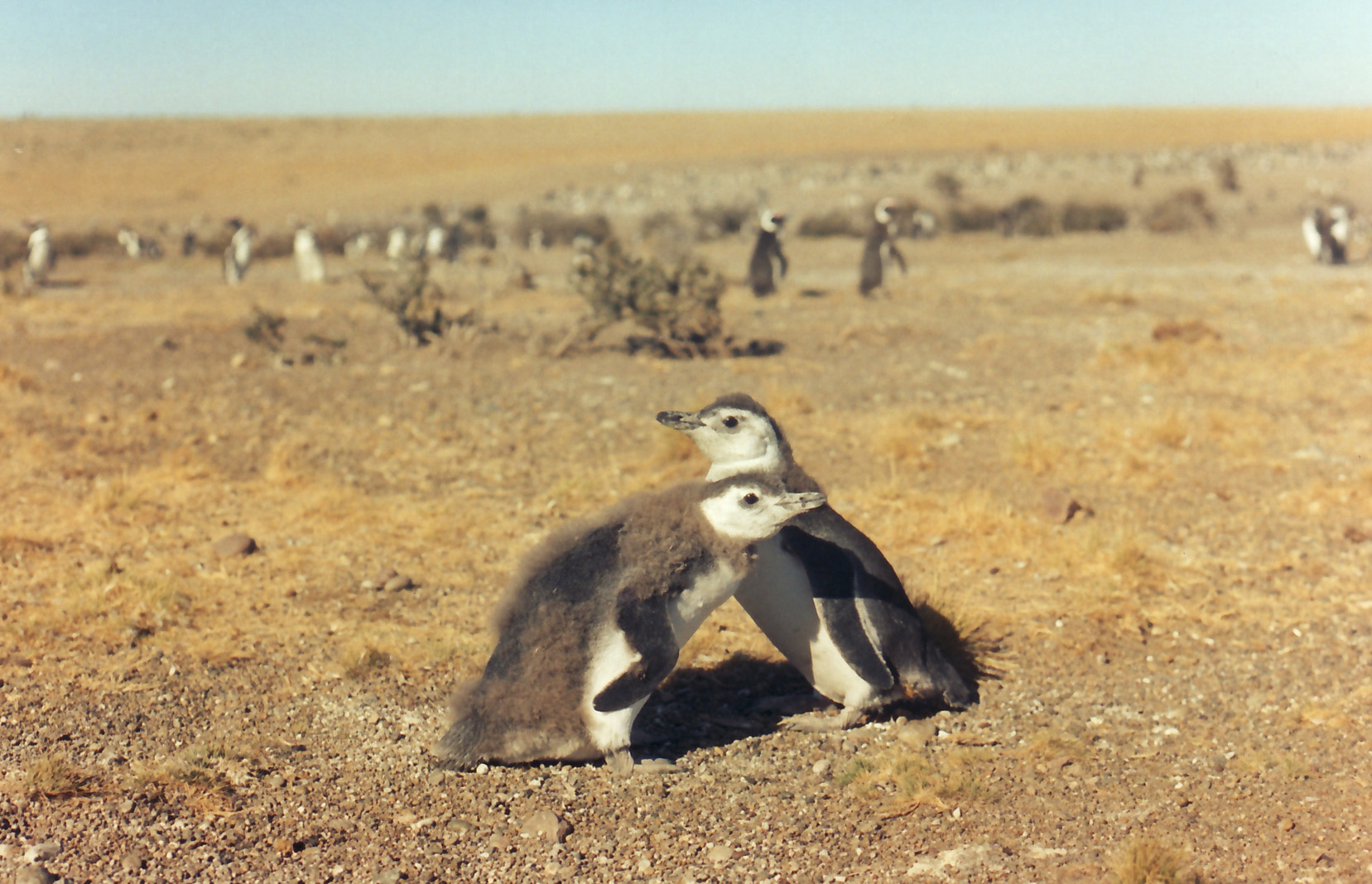 Two Magellanic Penguins (Spheniscus magellanicus) in Cabo Guardian, Santa Cruz Province, Argentina